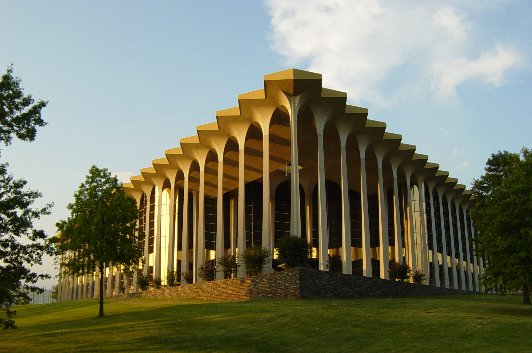 Photograph of the Learning Resource Center - Graduate Center on the campus of Oral Roberts Universityen in Tulsaen, Oklahomaen.